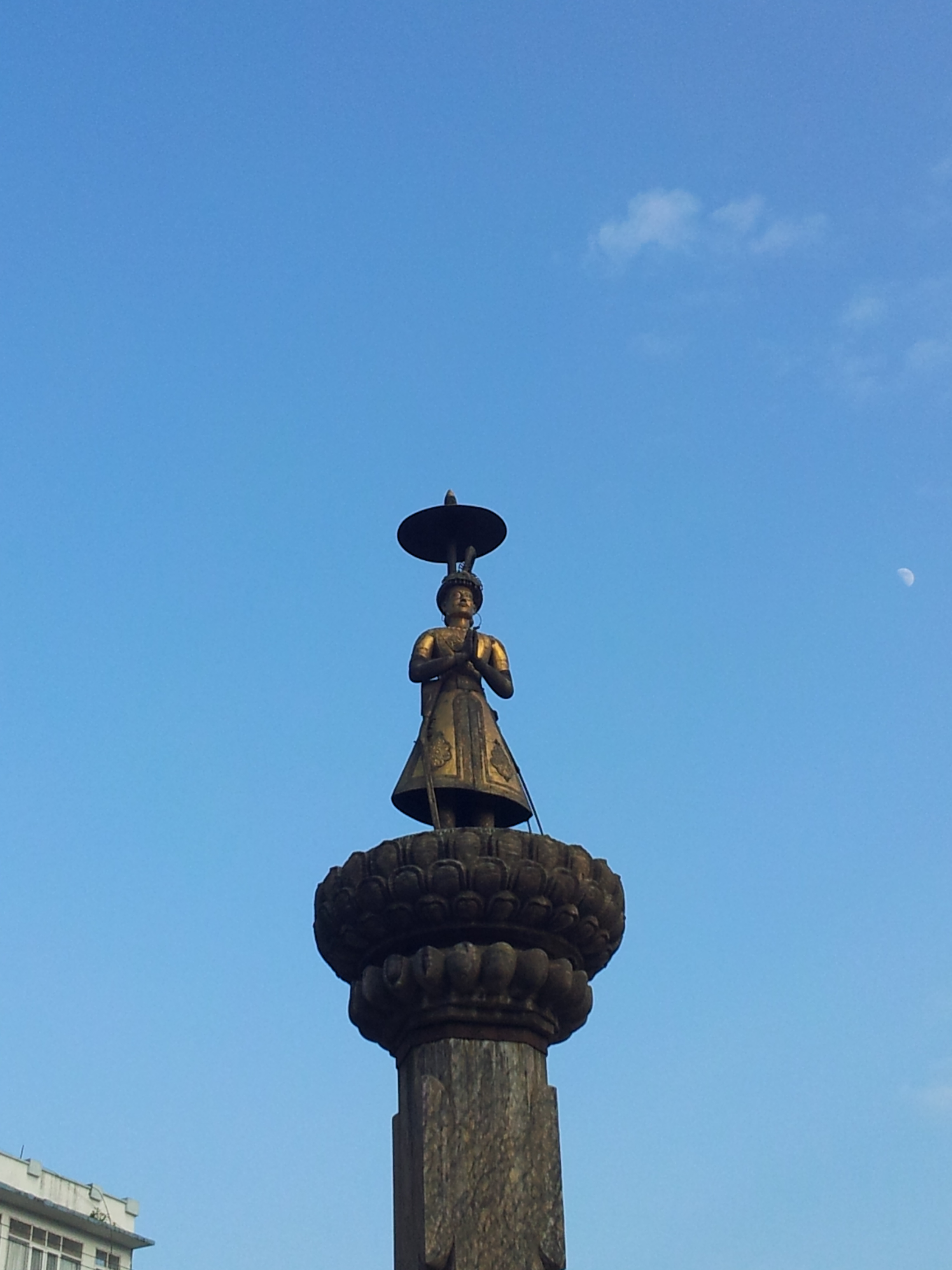 Statue of Jang Bahadur Rana at Kalmochan Temple in Kathmandu